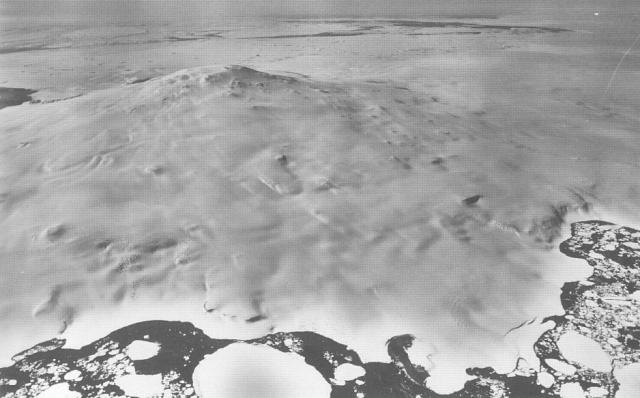 Mount Siple is a massive shield volcano which rises to 3110 m and forms the high point of Siple Island in Marie Byrd Land off the coast of Antarctica. This aerial view is from the west, with dark-colored open water in the foreground and pack-ice-filled Pankratz Bay at the far right.